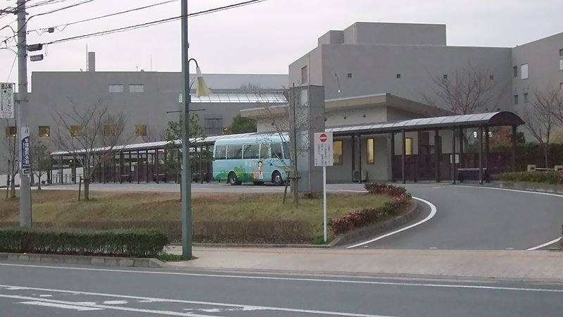 Kasuga City community bus center